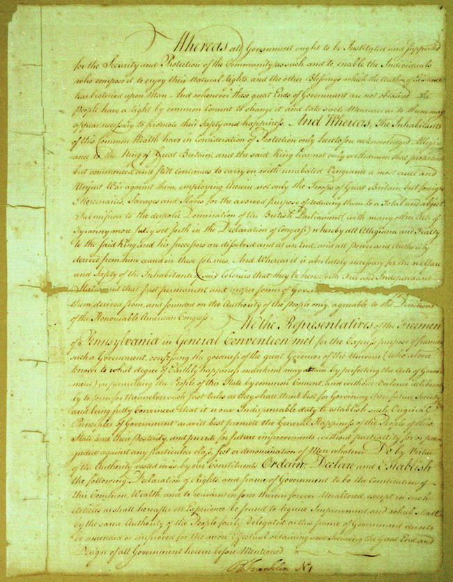 First page of the Pennsylvania 1776 Constitution